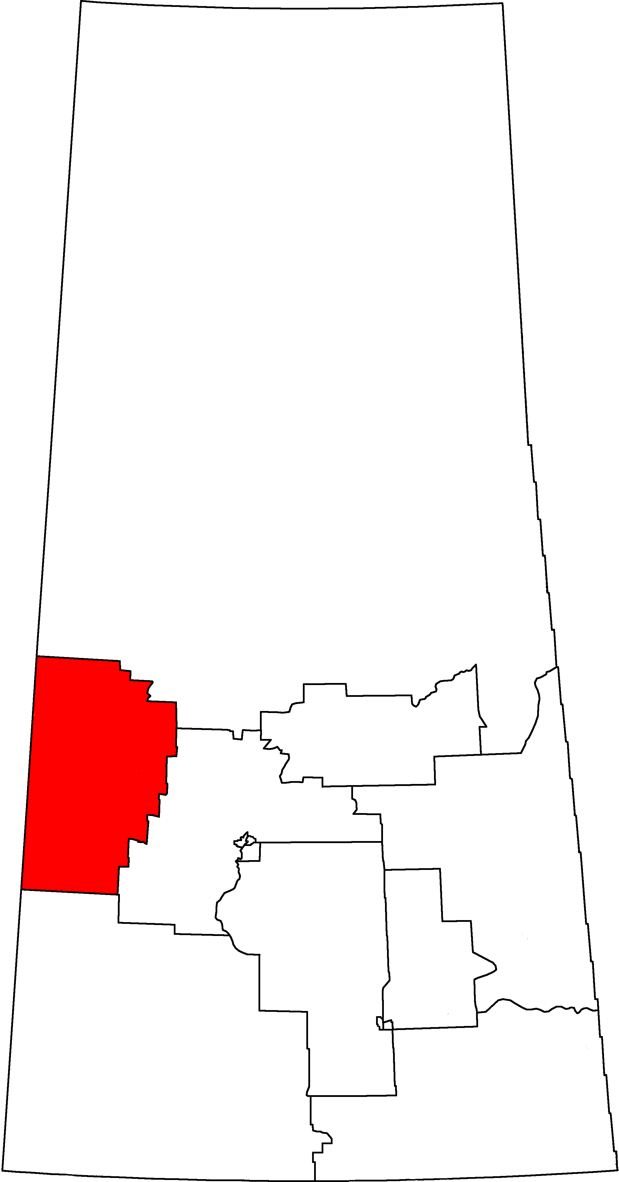 Federal Electoral District in Saskatchewan, Canada as of the 2013 Representation Order.